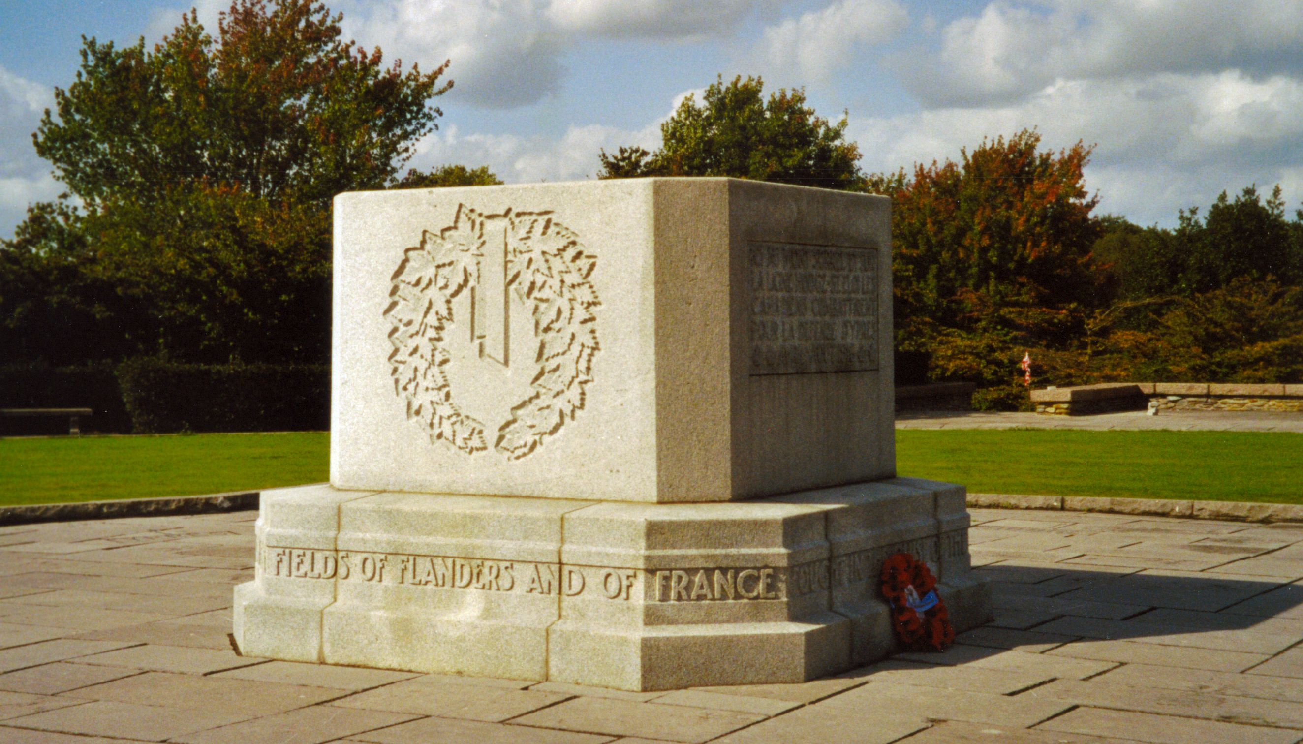 The Canadian Memorial at Hill 62, outside Ypres, Belgium.